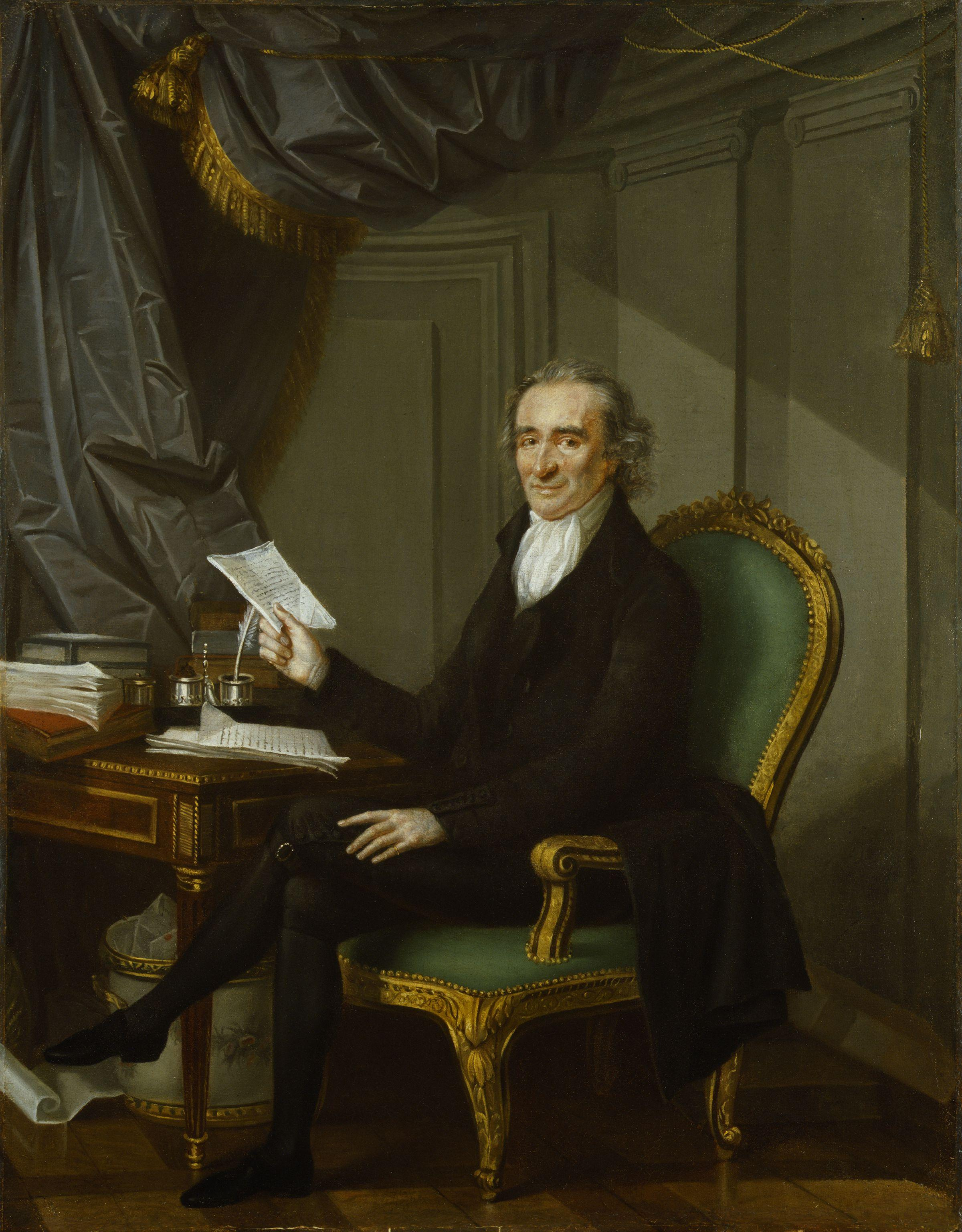 All images in this batch have been confirmed as author died before 1939 according to the official death date listed by the NPG.